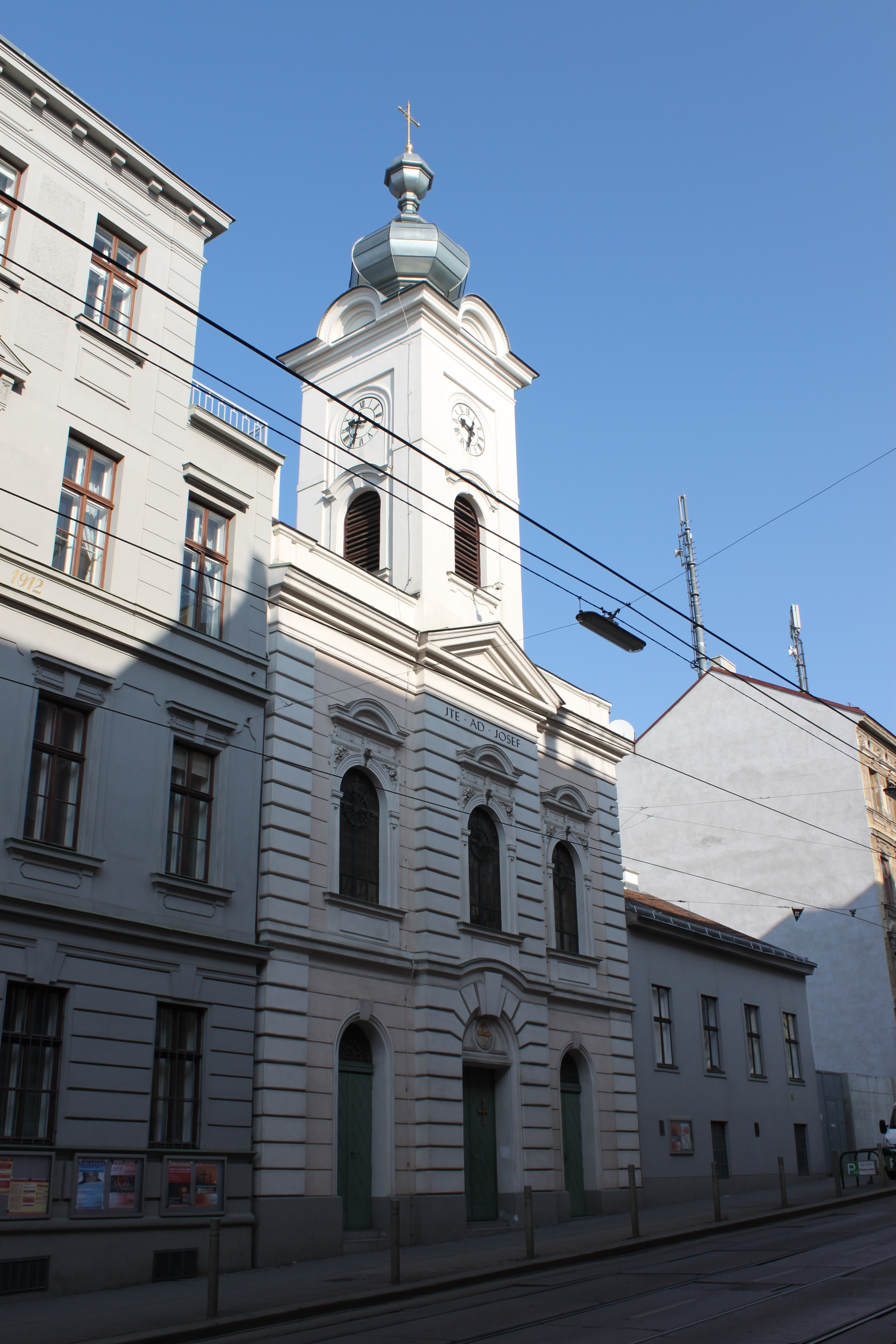 St. Joseph-Church in the 14th district of Vienna